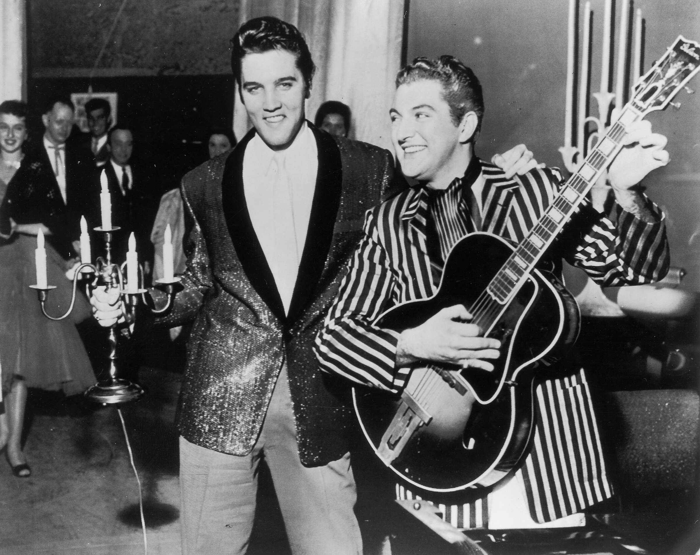 Photo of Elvis Presley and Liberace trading places in 1956. The two entertainers switched jackets with Elvis taking Liberace's candelabra and Liberace playing Elvis' guitar for a publicity photo. Both were appearing in Las Vegas.